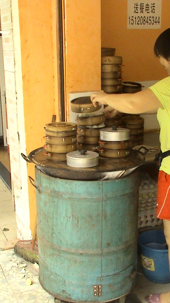 Baozi and jaozi stacked on steam barrel. Haikou, Hainan, China